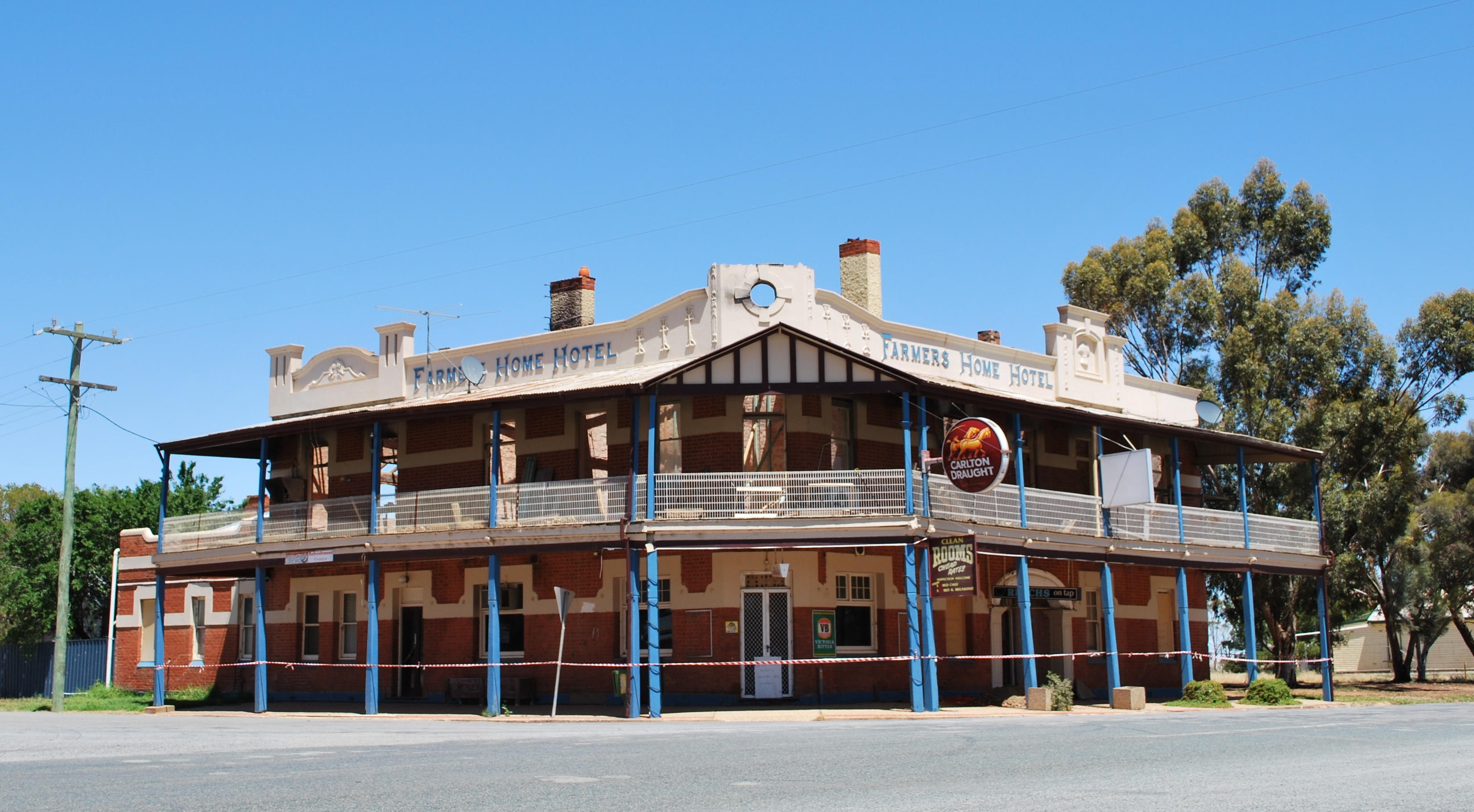 Farmers Home Hotel at Matong, New South Wales, undergoing rebuilding works after a fire.